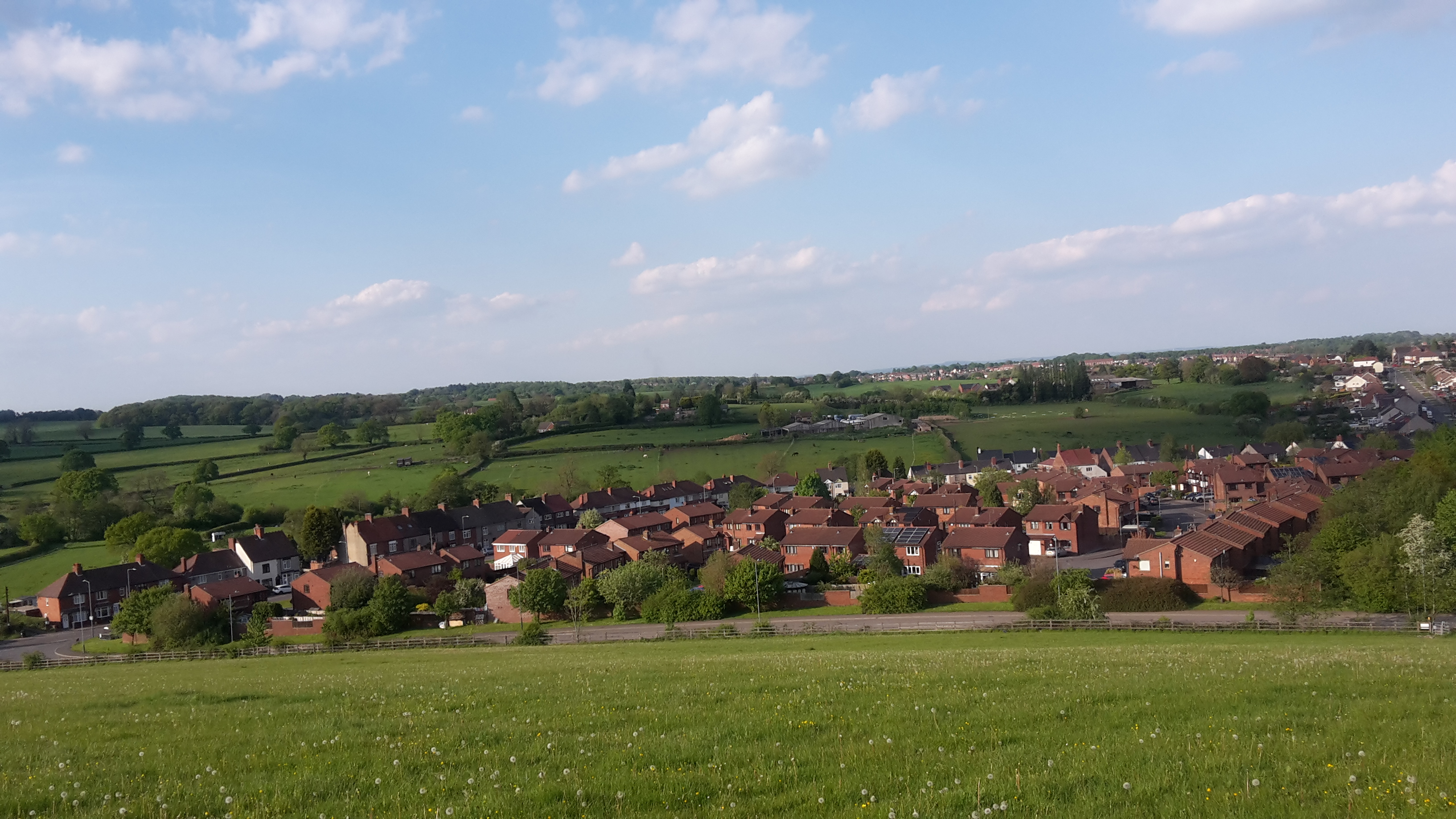 Part of the village of Galley Common, near Nuneaton, Warwickshire, from a nearby hill